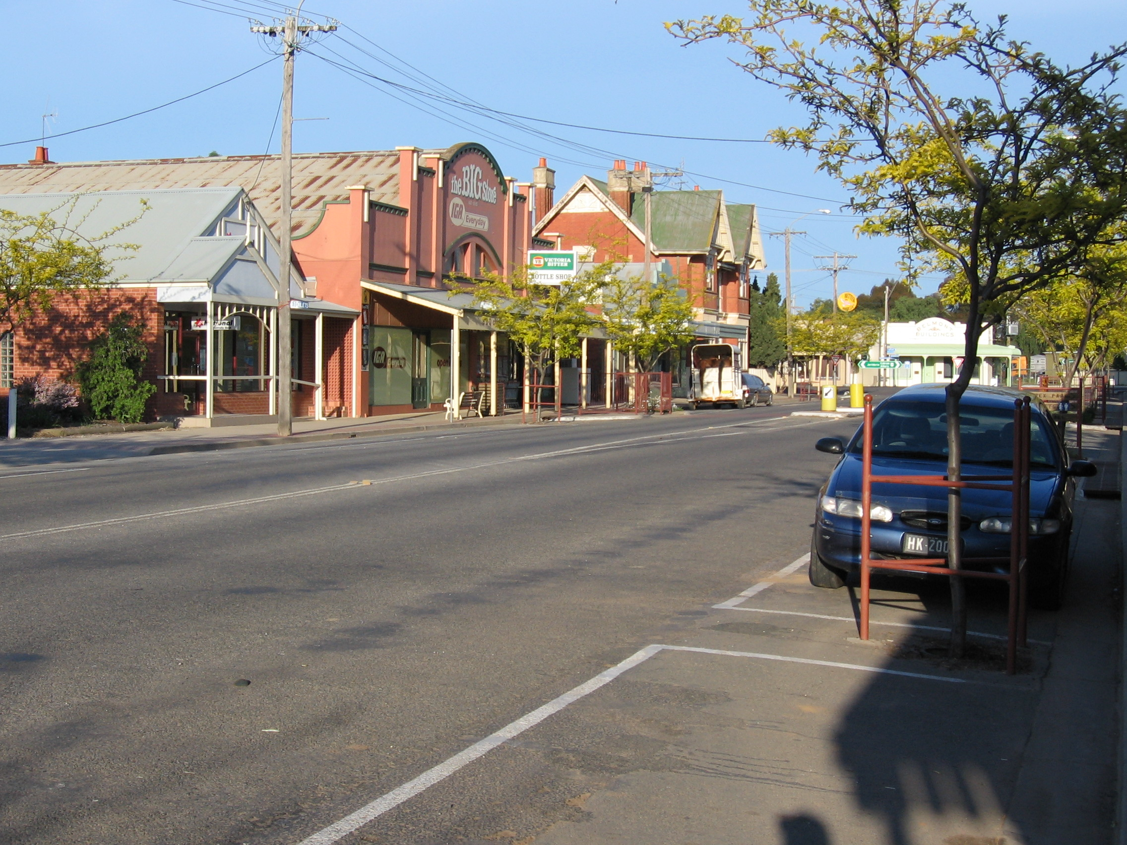 Berrigan, New South Wales